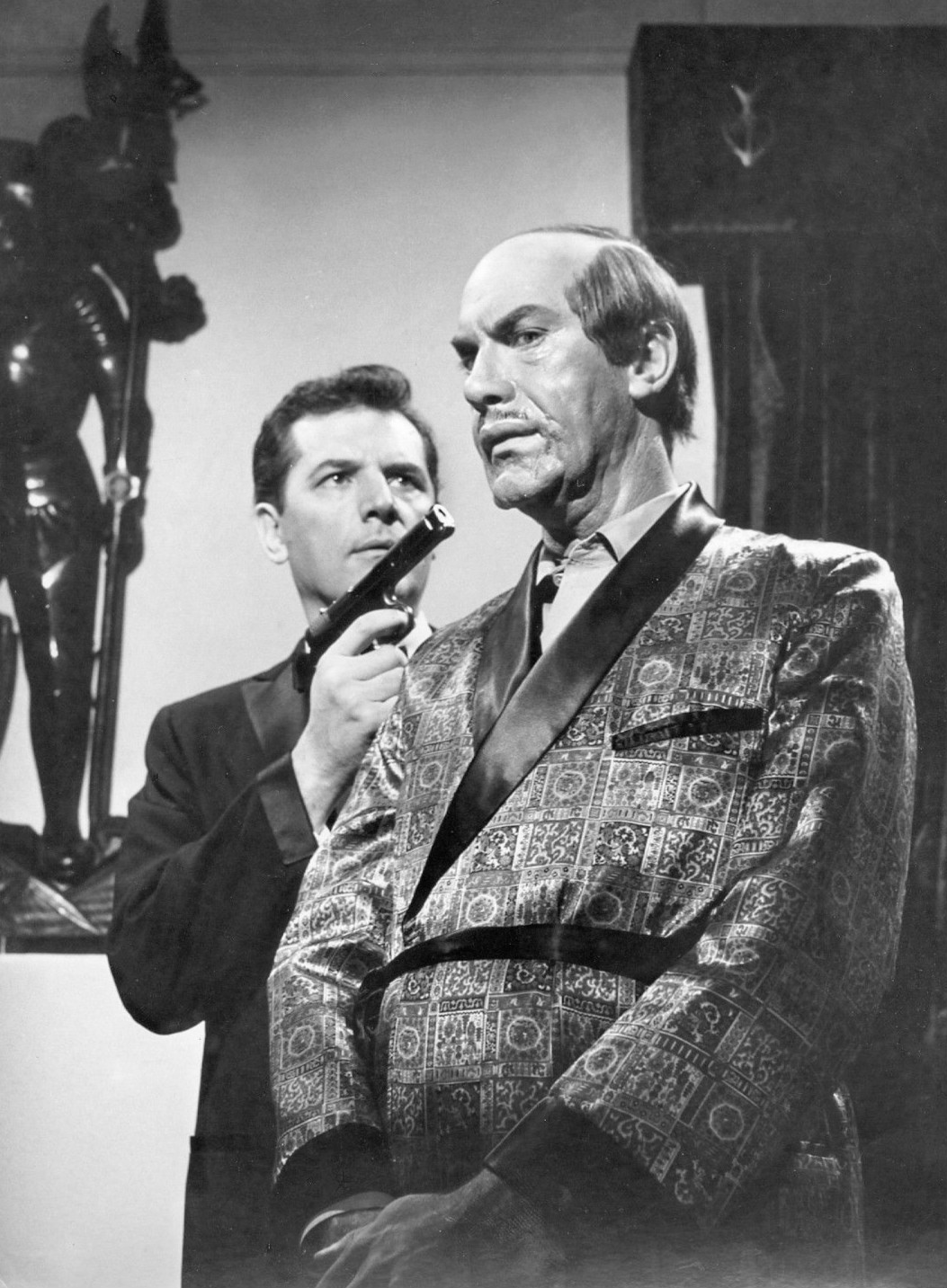 Photo of Steven Hill as Dan Briggs and Martin Landau from the premiere of the television program Mission:Impossible.